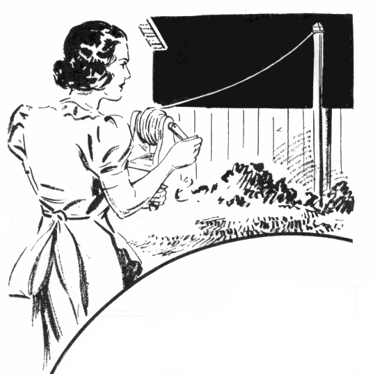 From December 1937's Popular Mechanics, "New Inventions" column.